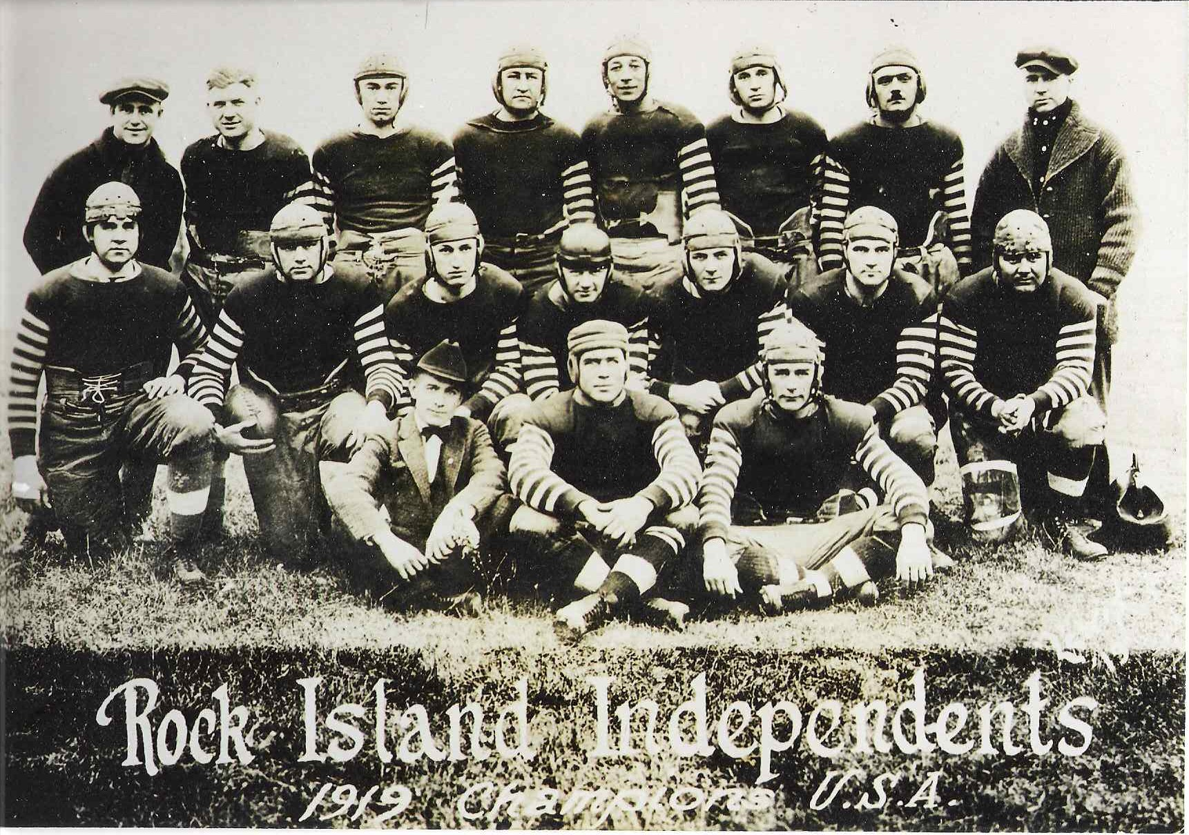 Photo of RI Independents Championship Football Team of 1919